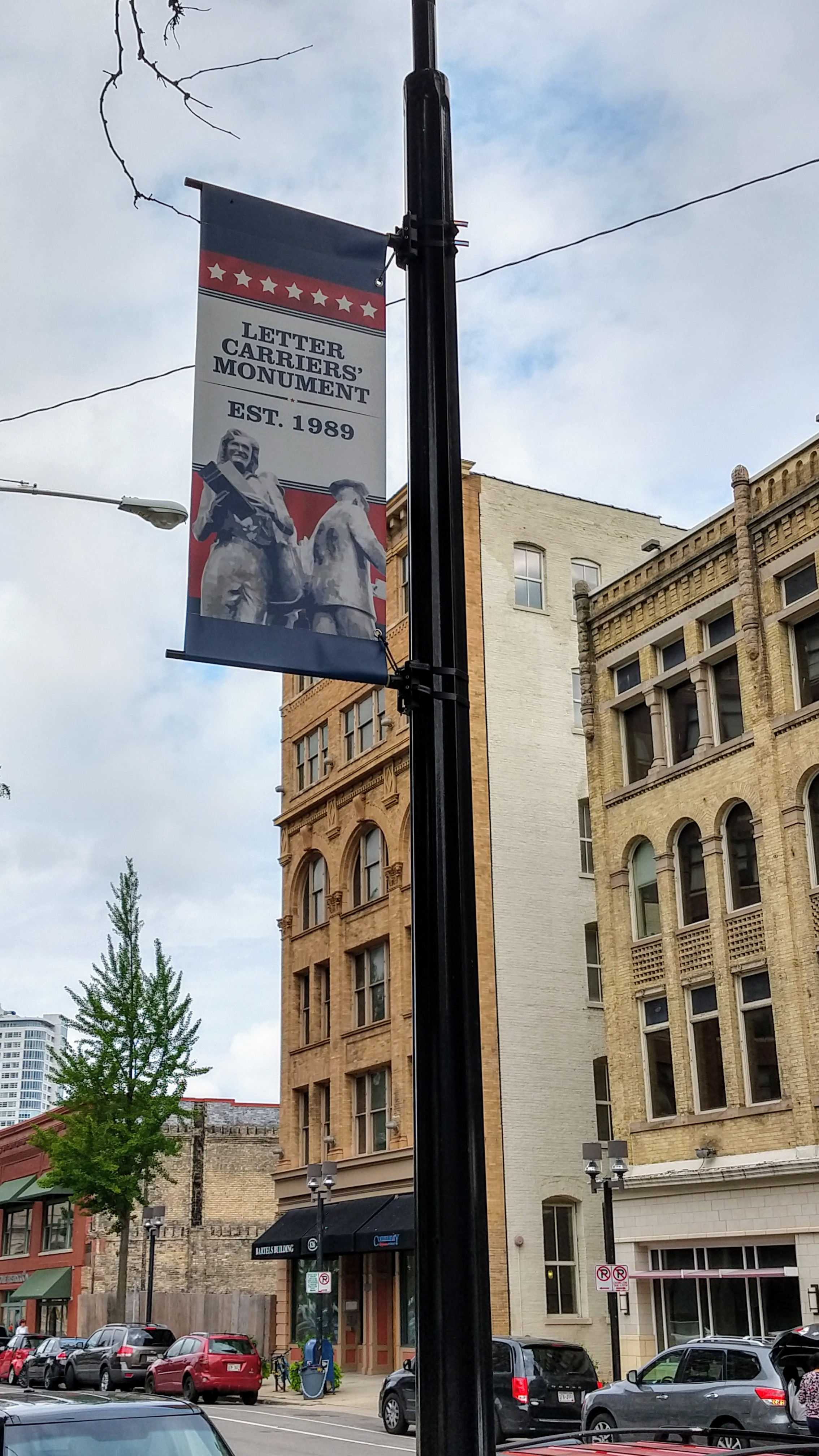 New banners